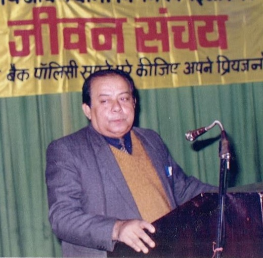 Prabhas Kumar Chaudhary at an official Function of LIC